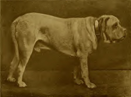 The famous Mastiff Ch. Crown Prince